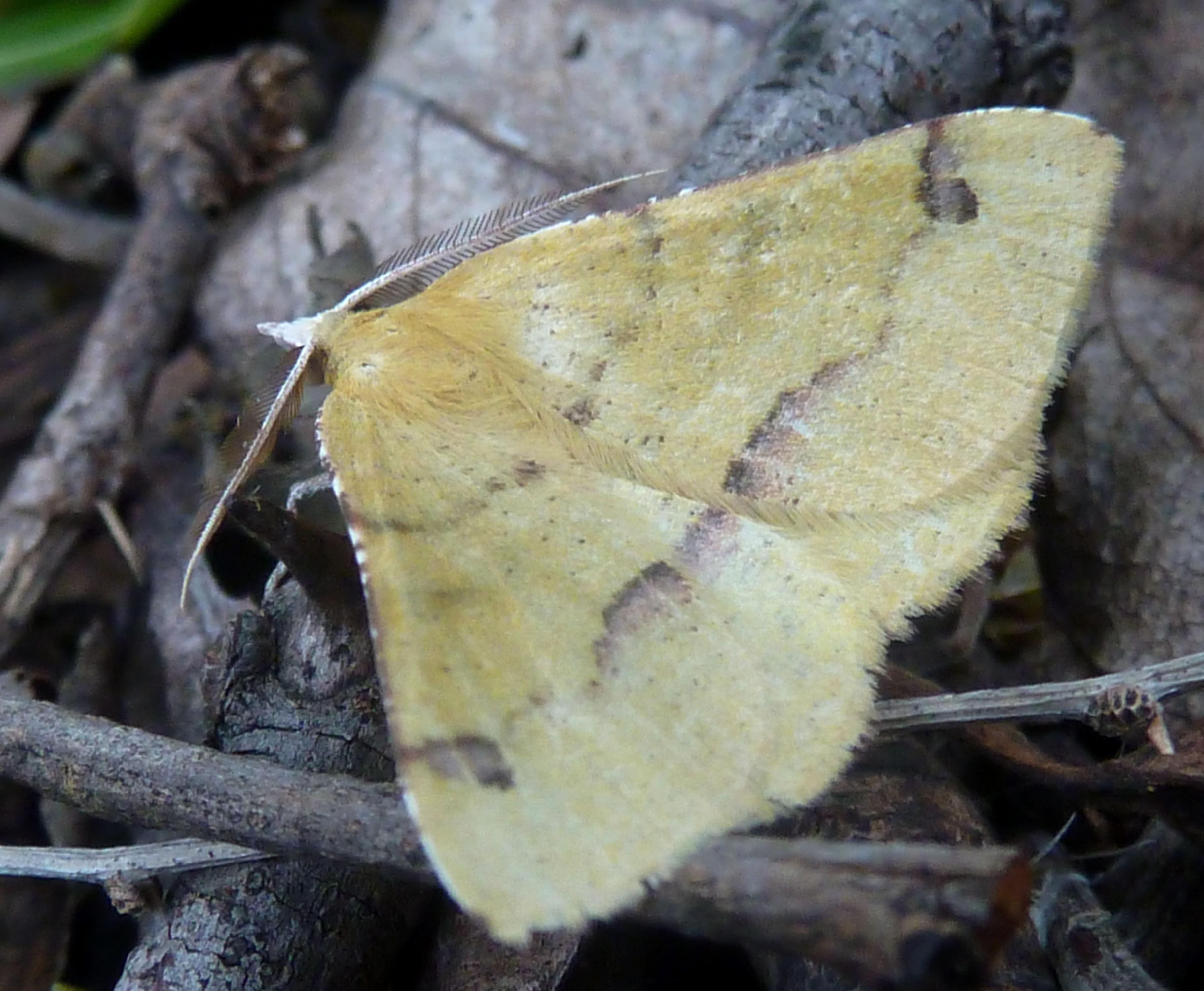 Banded thorn in Roodeplaat Nature Reserve near Pretoria. It was in brush near Ziziphus mucronata, its food plant.